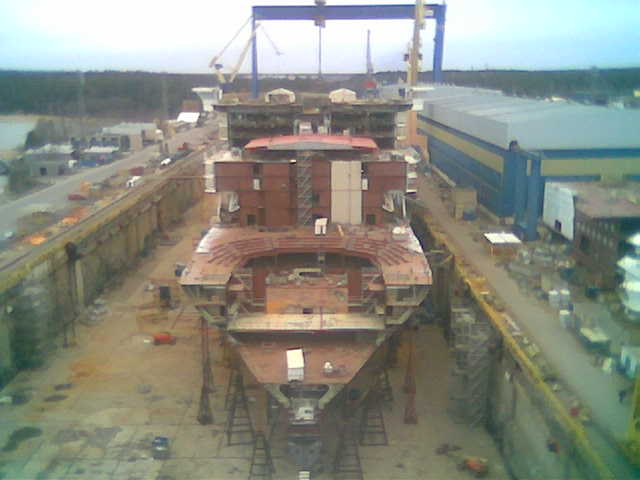 Independence of the Seas under construction at Turku, Finland